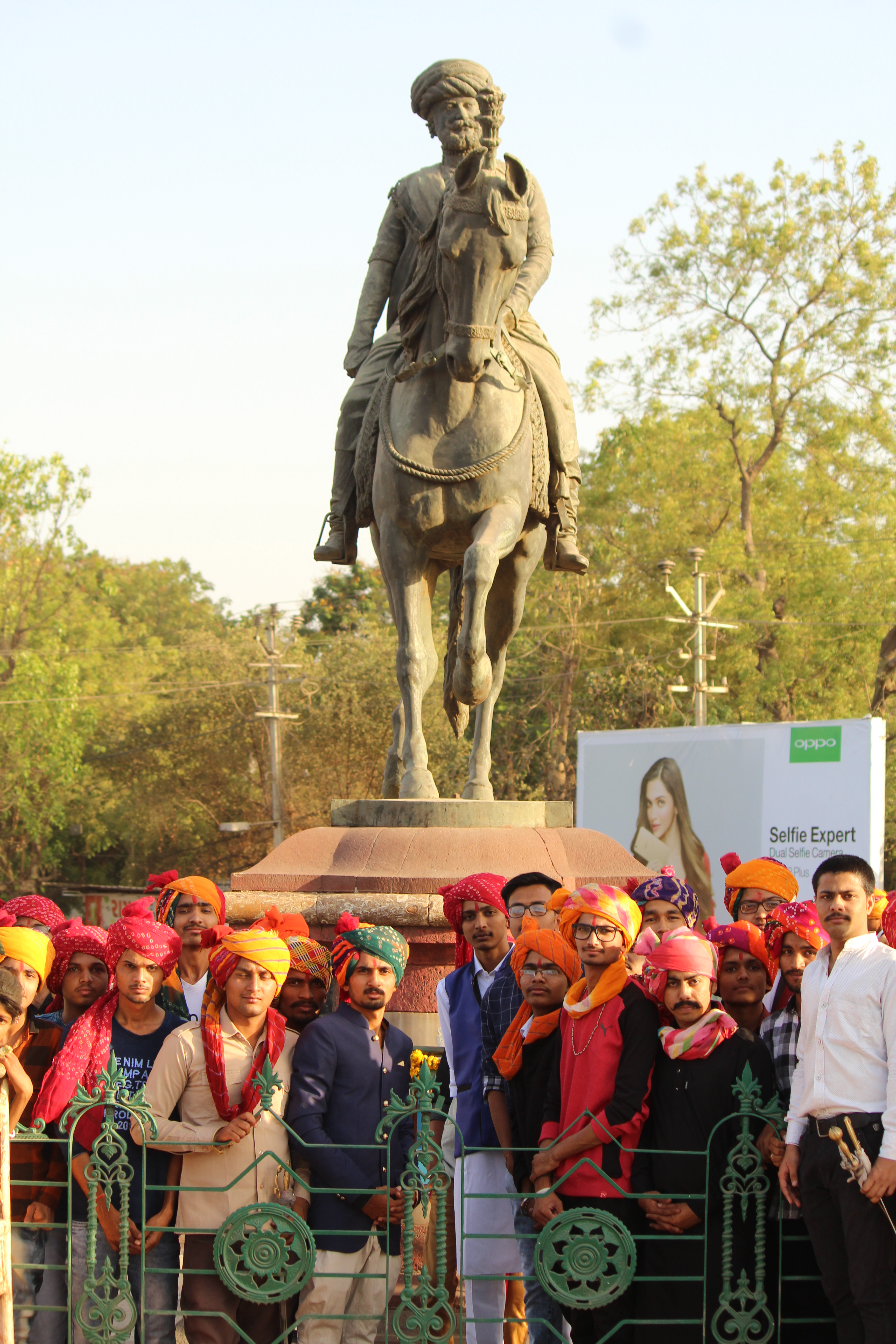 sir vaghji thakor great ruler and donor of morbi gujarat india